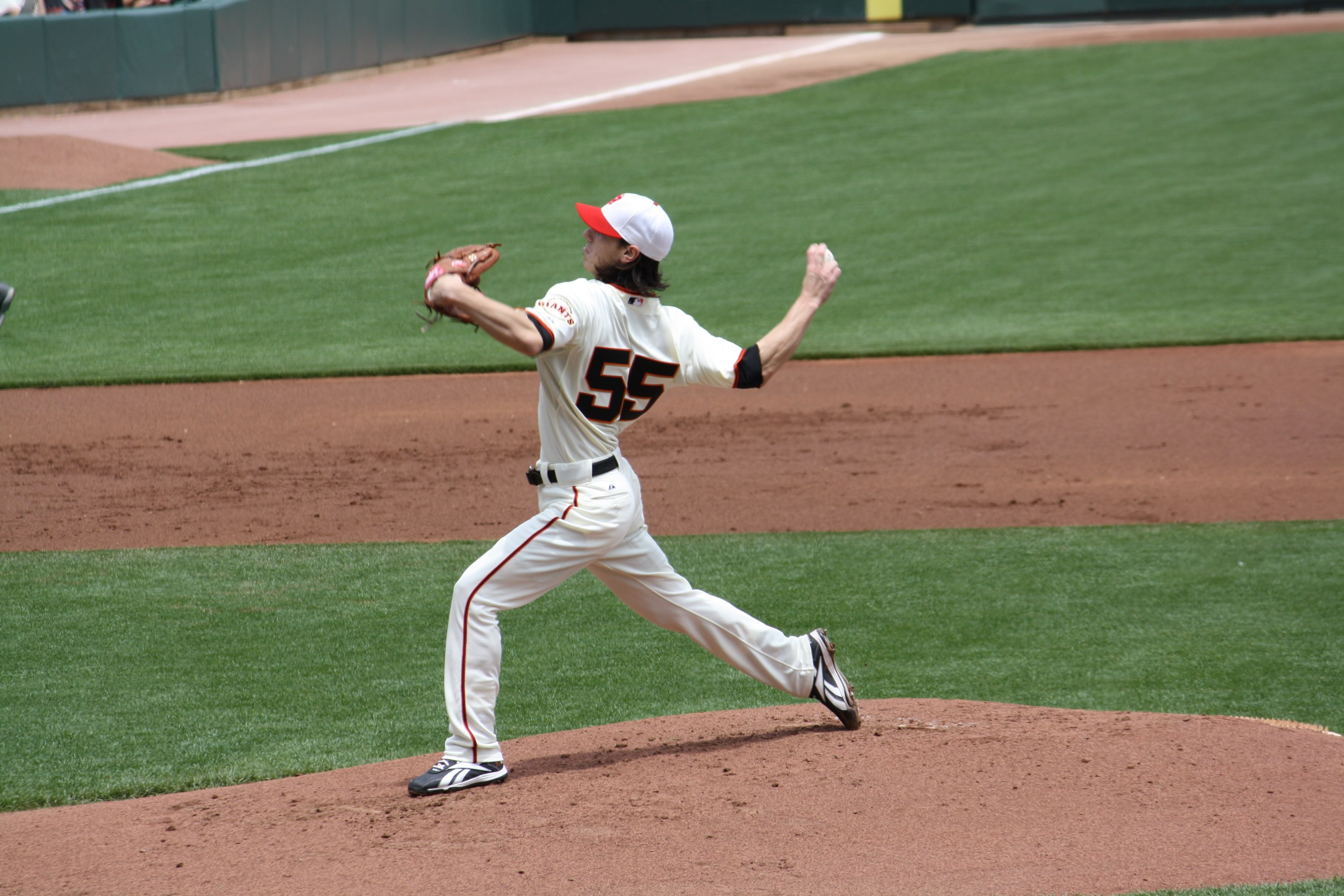 Tim Lincecum